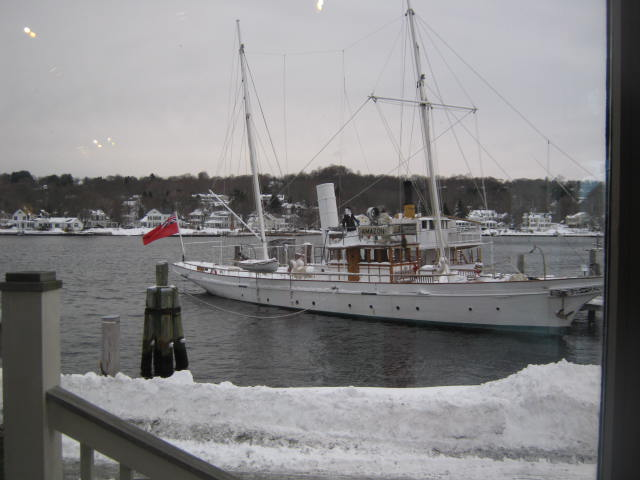 Picture taken in the Mystic Seaport Visitor Reception Center on December 20 2009